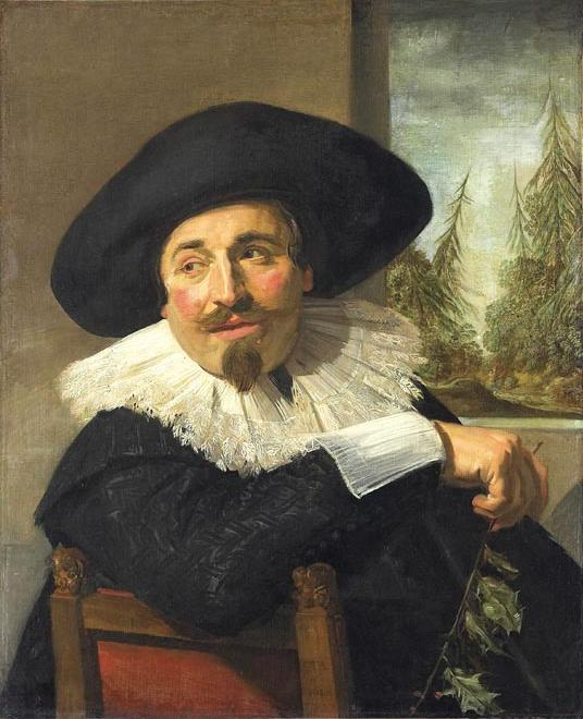 Portrait of Isaac Abrahamsz. Massa. Half-length, sitting on a chair looking back. He holds a holly branch, as symbol of a symbol of loyalty and friendship, the hat is from Canadian beaver.